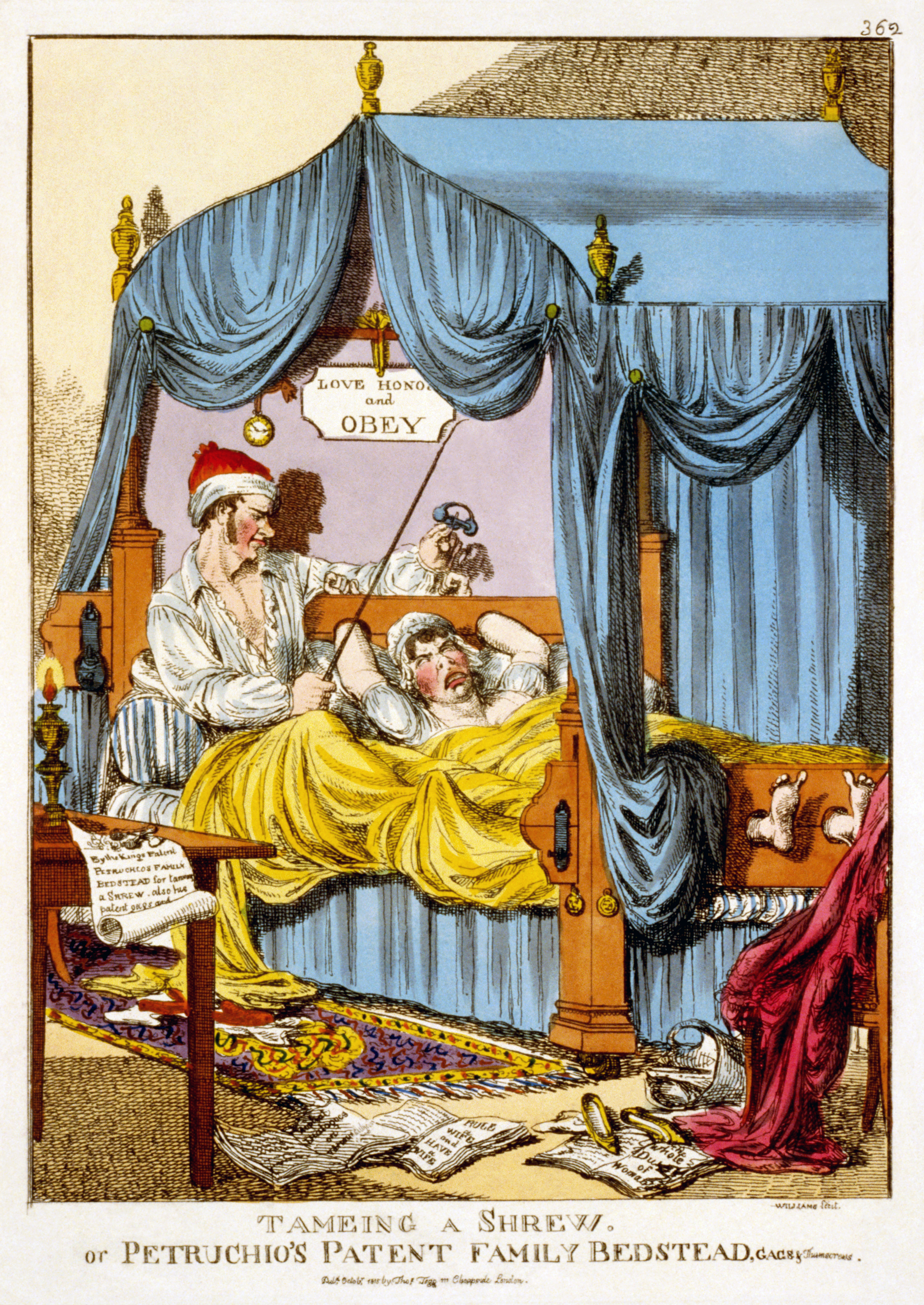 Edit of File:Tameing a Shrew; or, Petruchio's Patent Family Bedstead, Gags & Thumscrews.png by User:Durova. "Tameing a Shrew; or, Petruchio's Patent Family Bedstead, Gags & Thumscrews" - a deeply misogynist satirical caricature by "Williams", referencing Shakespeare's The Taming of the Shrew. The man's wife is forced into complete subjugation to the husband, and a sign hangs above her, quoting a line from the wedding service of the time: "Love, honour, and OBEY". See The Satirical Gaze by Cindy McCreery, page 153. From Thomas Tegg's Caricature Magazine, 1815.